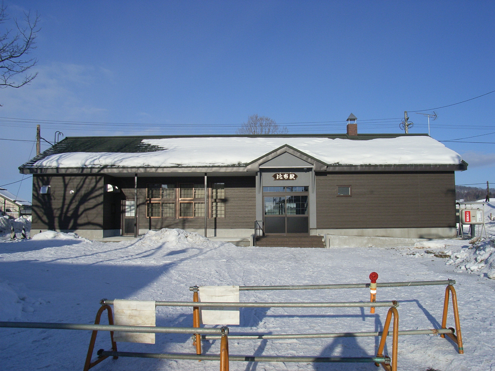 Pippu railway station just after inauguration of its new station building